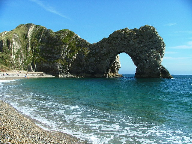 Durdle Door. Viewed from beach level